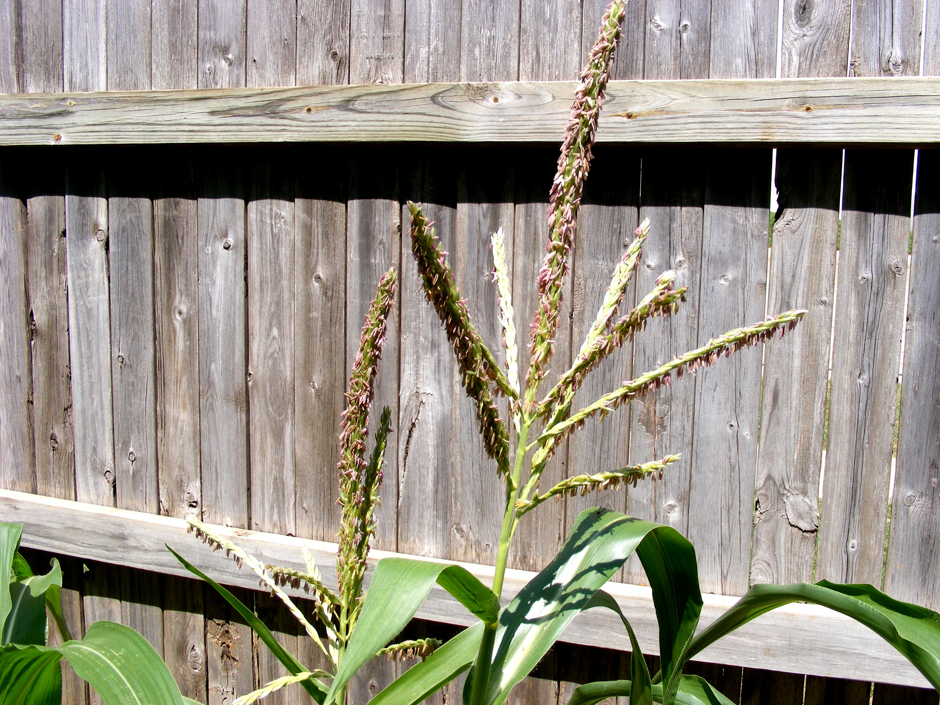 The flowers of Sweet corn.